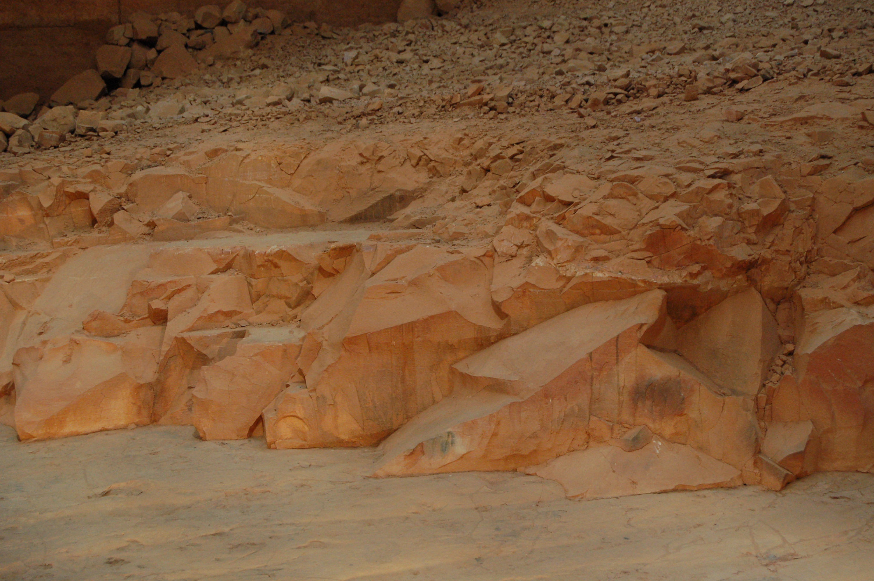 Close up of the overburden the covered the dinosaur tracks. The camera is pointing towards the south west corner of the building.